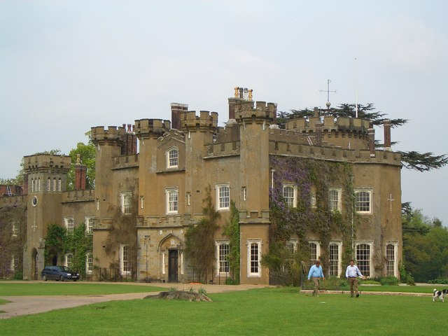 Knepp Castle. The modern Knepp Castle, as opposed to the original motte and bailey castle which can be seen in grid square TQ1620